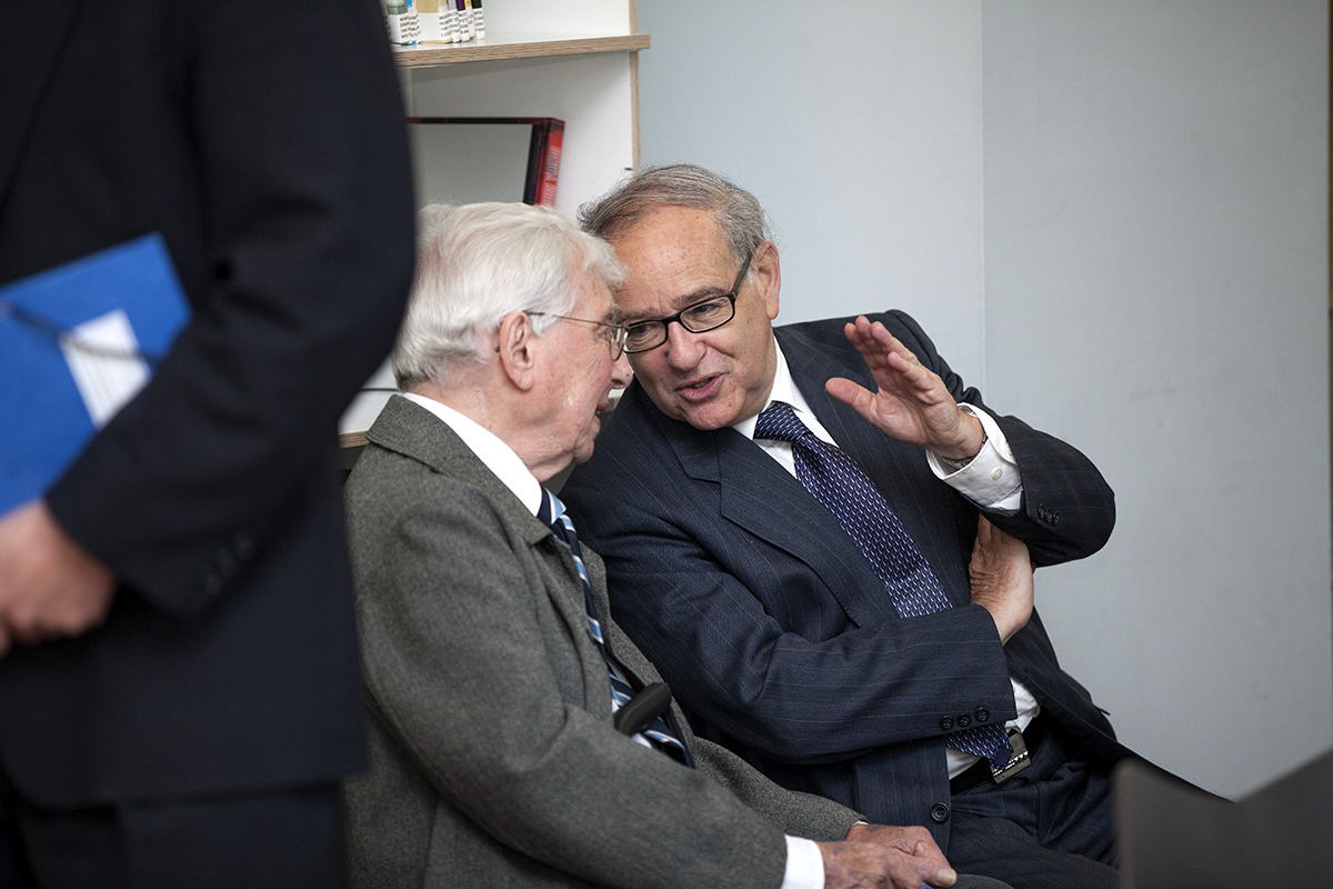 Arno J. Mayer chats with Alain Meyer, former President of Luxembourg's Council of State, during a break at the Luxembourg Institute for European and International Studies conference Arno J. Mayer – Critical Junctures in Modern History, 10-11 May 2013, Casino Luxembourg.